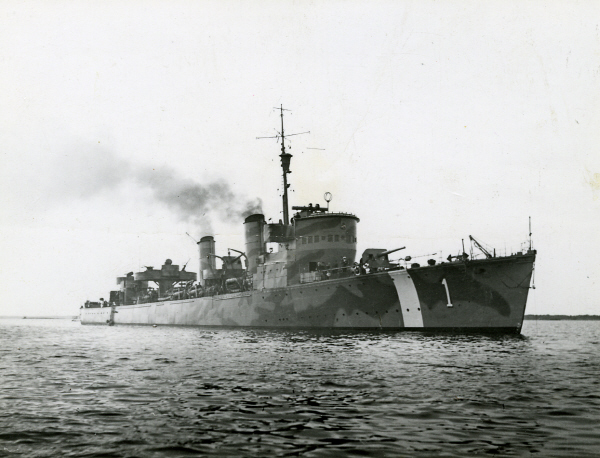 The Swedish destroyer HMS Ehrensköld.